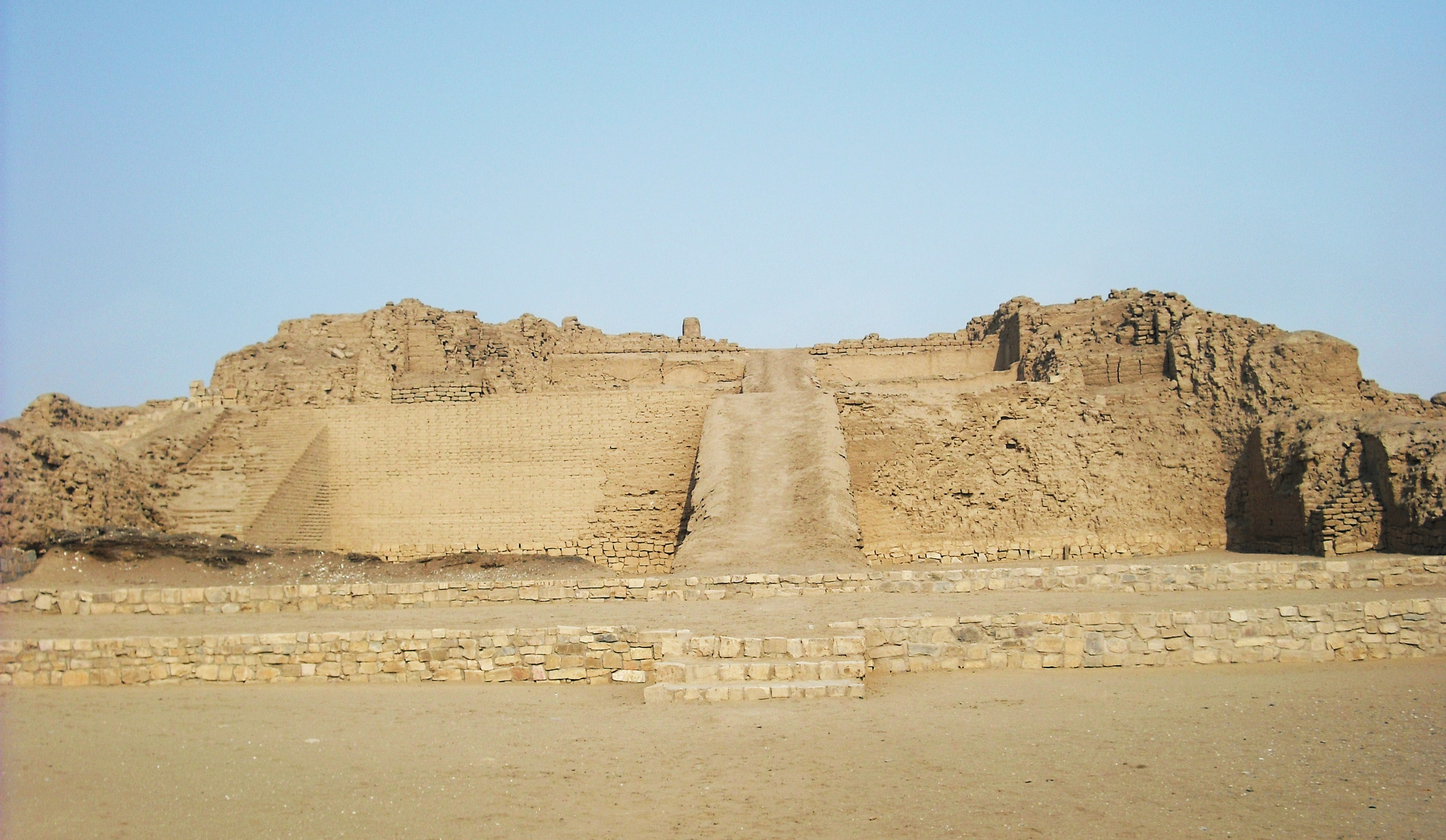 Pyramid, Pachacamac, Peru